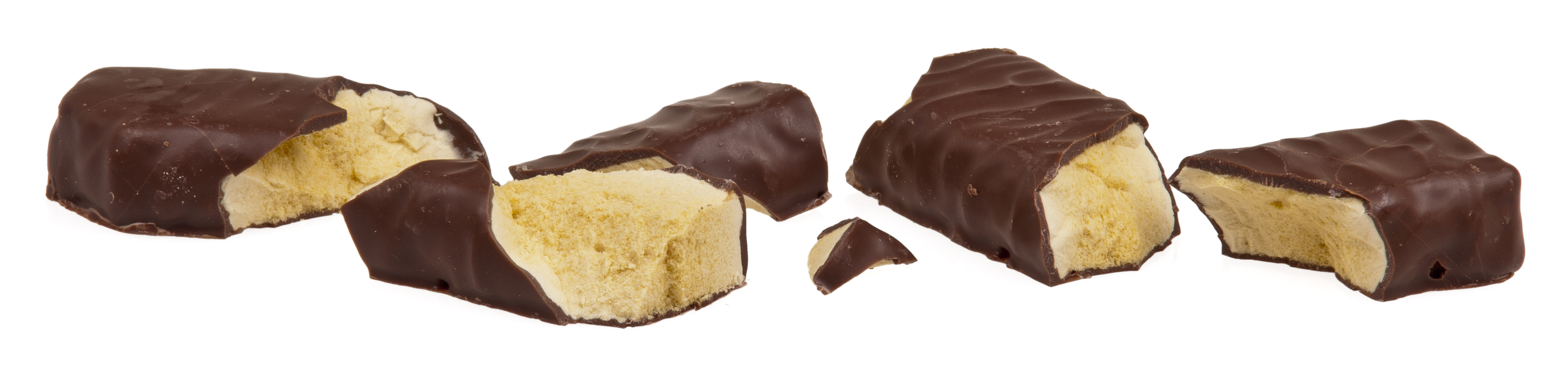 An Australian Violet Crumble chocolate bar, shown shattered when smacked against a hard surface.